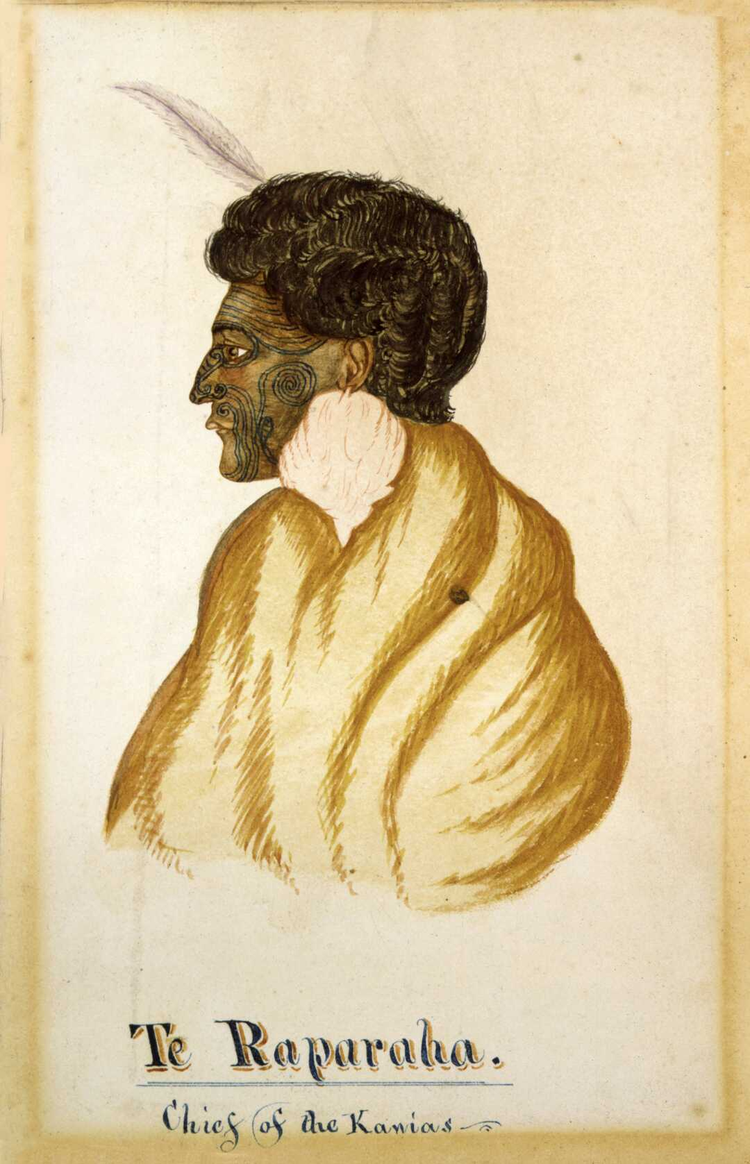 A profile head and shoulders portrait of the Ngāti Toa chief Te Rauparaha, wearing a cloak, a pohoi ear ornament (made from albatross feathers), and a feather in his hair. He has full moko (facial tattoo). Thought to be copy after Isaac Coates. cf similar portrait in the Peabody Museum, Salem, Mass., and ATL Hall, R., fl 1840s :Te Raparaha, chief of the Kawias. [184-] Reference Number: A-114-047 Shows a profile head and shoulders portrait of the Ngati Toa chief Te Rauparaha, wearing a cloak, shell earring, and feather in his hair. He has full moko. Key terms: 1 image, categorised under Watercolours, Ethnographic images and Portraits, related to d Te Rauparaha, R Hall, Isaac Coates, Ngati Toa, Rangatira, Whatu kakahu, Men, Maori, Maori - Clothing and Maori - Moko. Part of: Hall, R., fl 1840s :Te Raparaha, chief of the Kawias. [184-], Reference Number A-114-047 (1 digitised items) Extent: 1 watercolour(s)Watercolour 197 x 135 mm. Vertical imageSingle art work Conditions governing access to original: Partial restriction - Use photographic copy in preference to original. Other copies available: File PrintIn Drawings & Prints under Artist/Title (DFP-005976) Usage: You can search, browse, print and download items from this website for research and personal study. You are welcome to reproduce the above image(s) on your blog or another website, but please maintain the integrity of the image (i.e. don't crop, recolour or overprint it), reproduce the image's caption information and link back to here ( If you would like to use the above image(s) in a different way (e.g. in a print publication), or use the transcription or translation, permission must be obtained. More information about copyright and usage can be found on the Copyright and Usage page of the NLNZ web site.